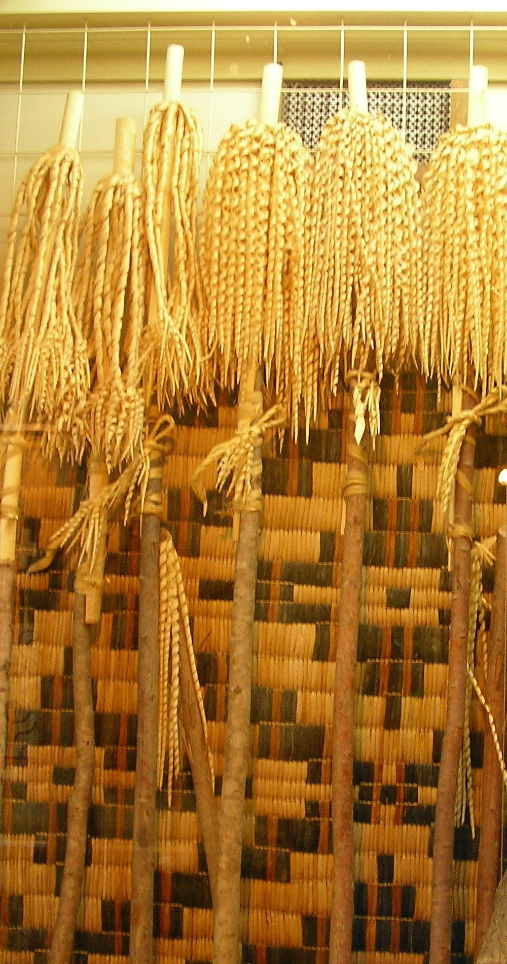 Photo of some ceremonial implements, Inaw, in the Kayano Shigeru Nibutani Ainu Museum in Nibutani, Hokkaido, Japan